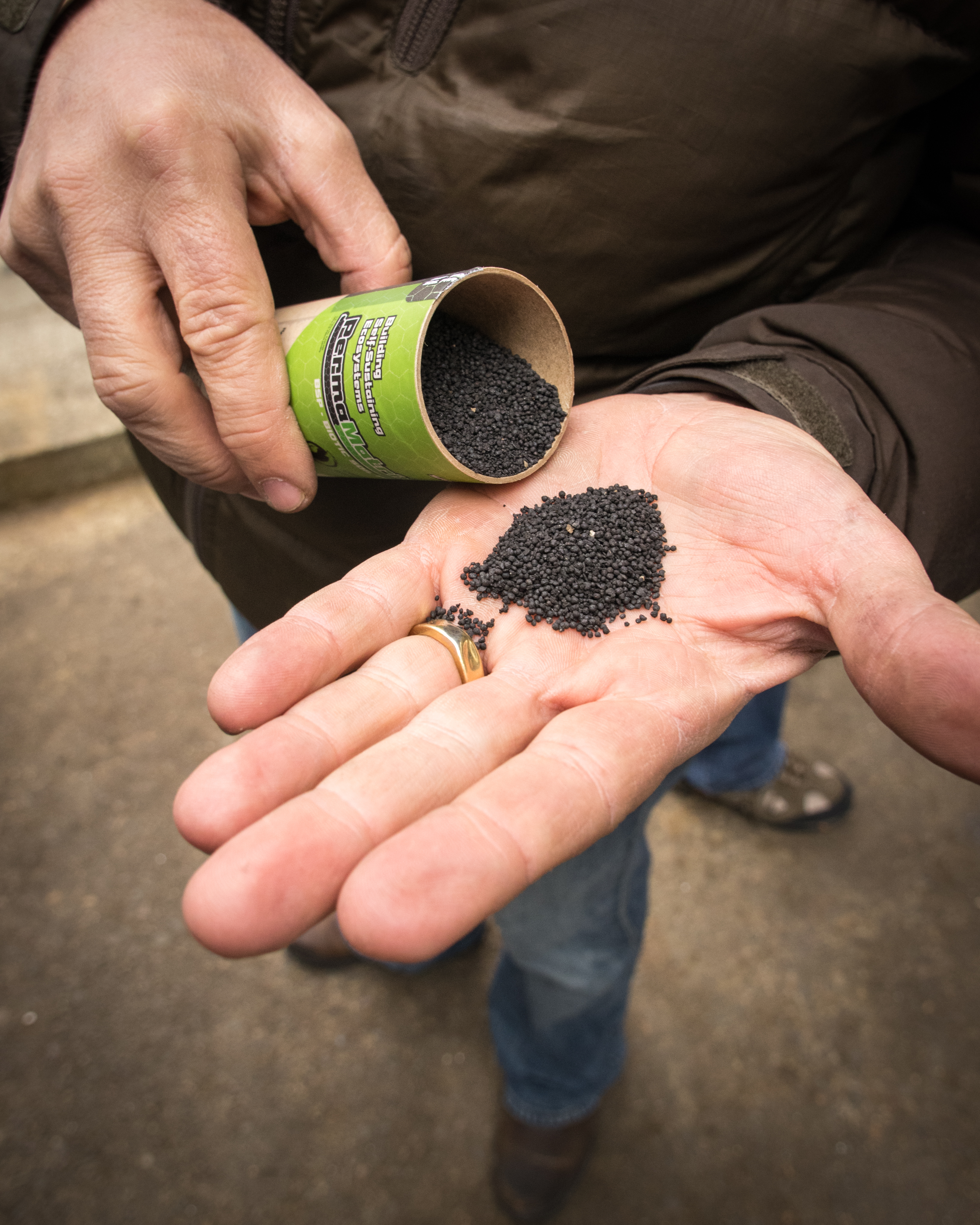 Small pieces of biochar